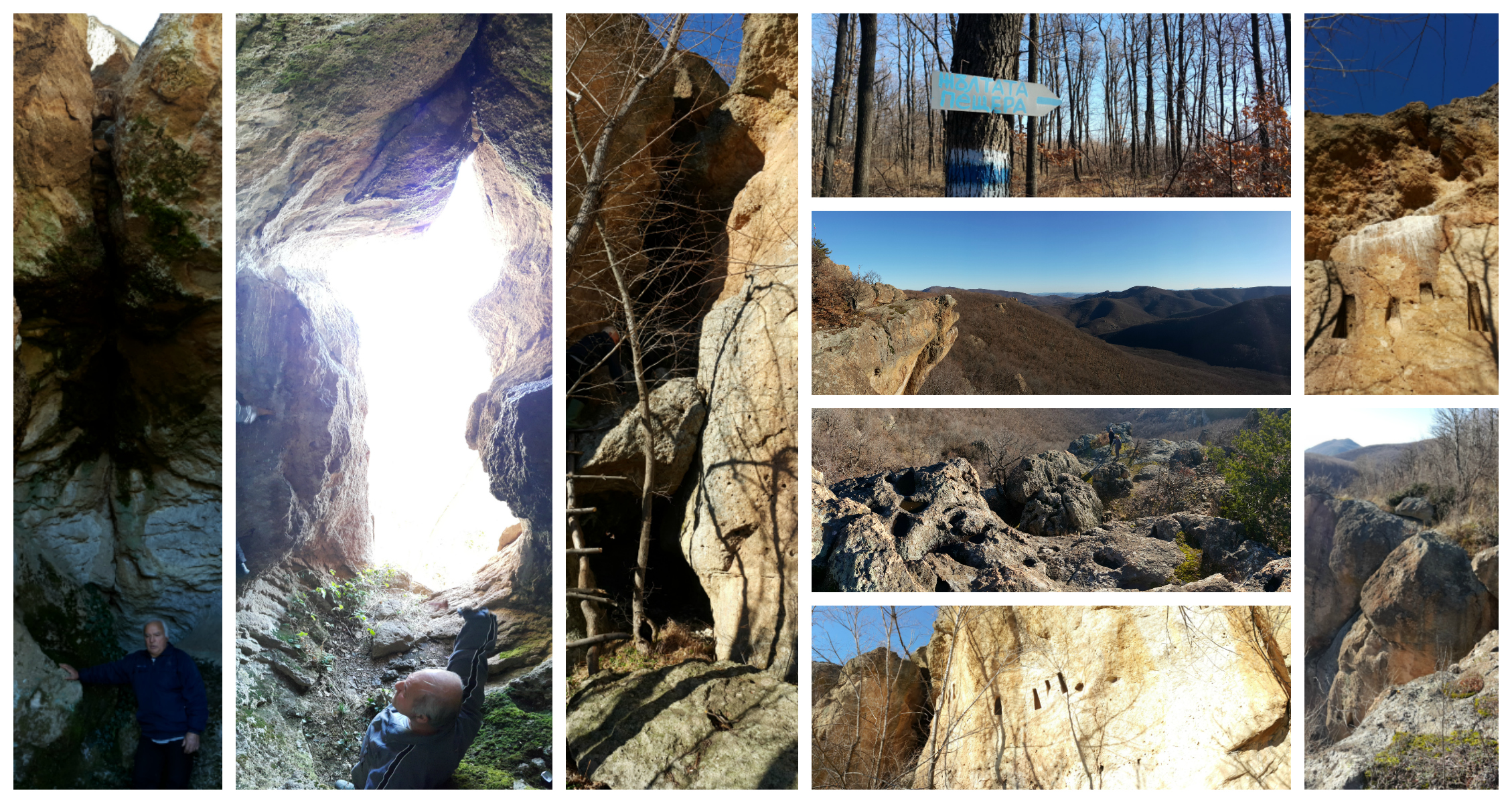 Yellow Cave Northeast Rhodopes Mountain Bukovo Bulgaria